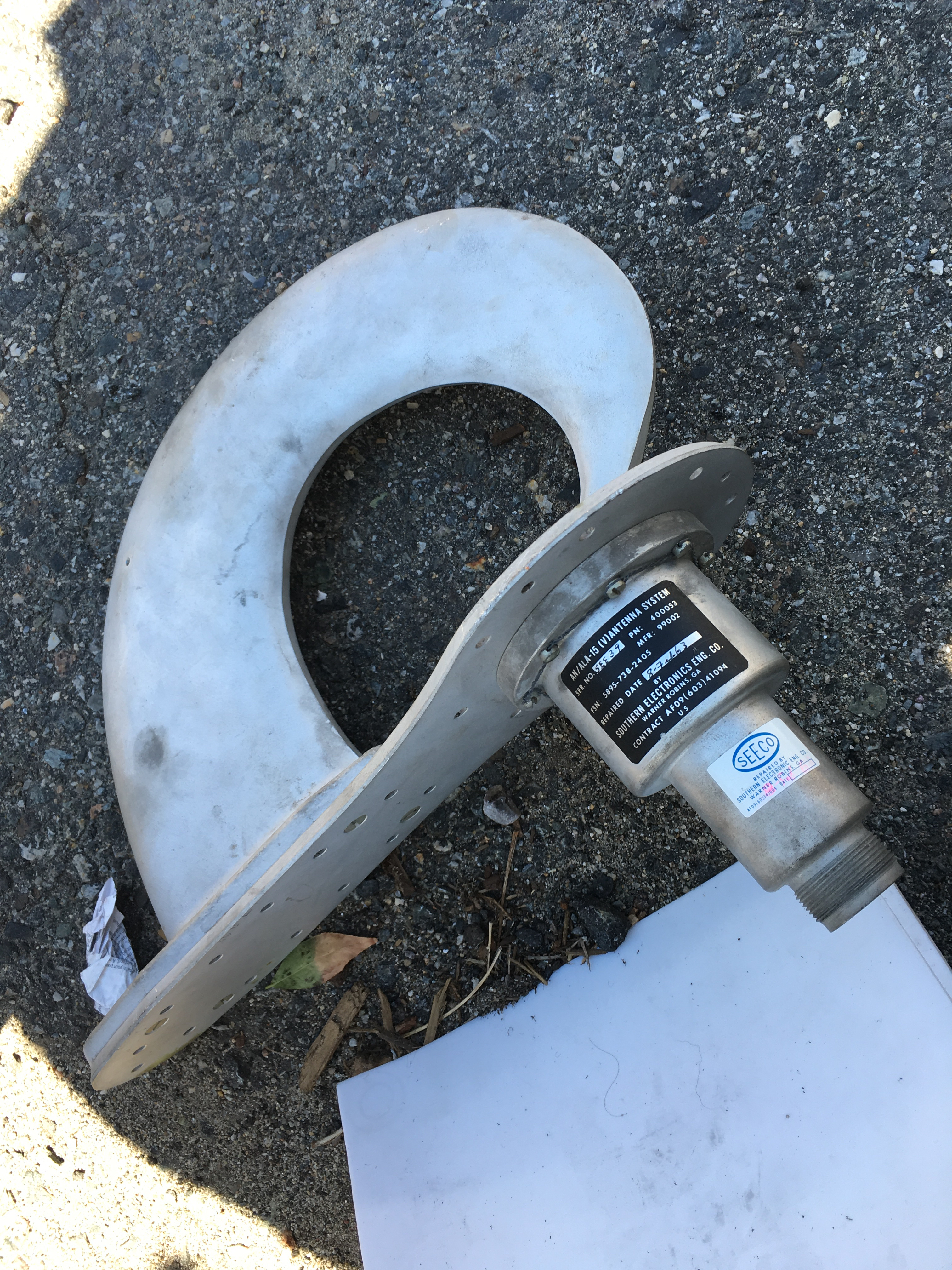 Item on display at the MIT Flea Market, held monthly from April to October on the MIT campus.